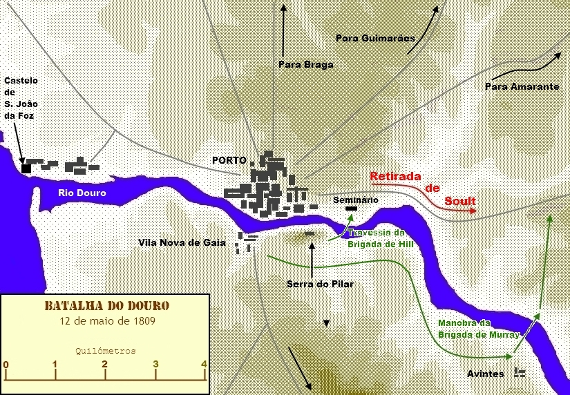 Map depicting the movements of Anglo-luso at the Battle of Porto in May 12, 1809.